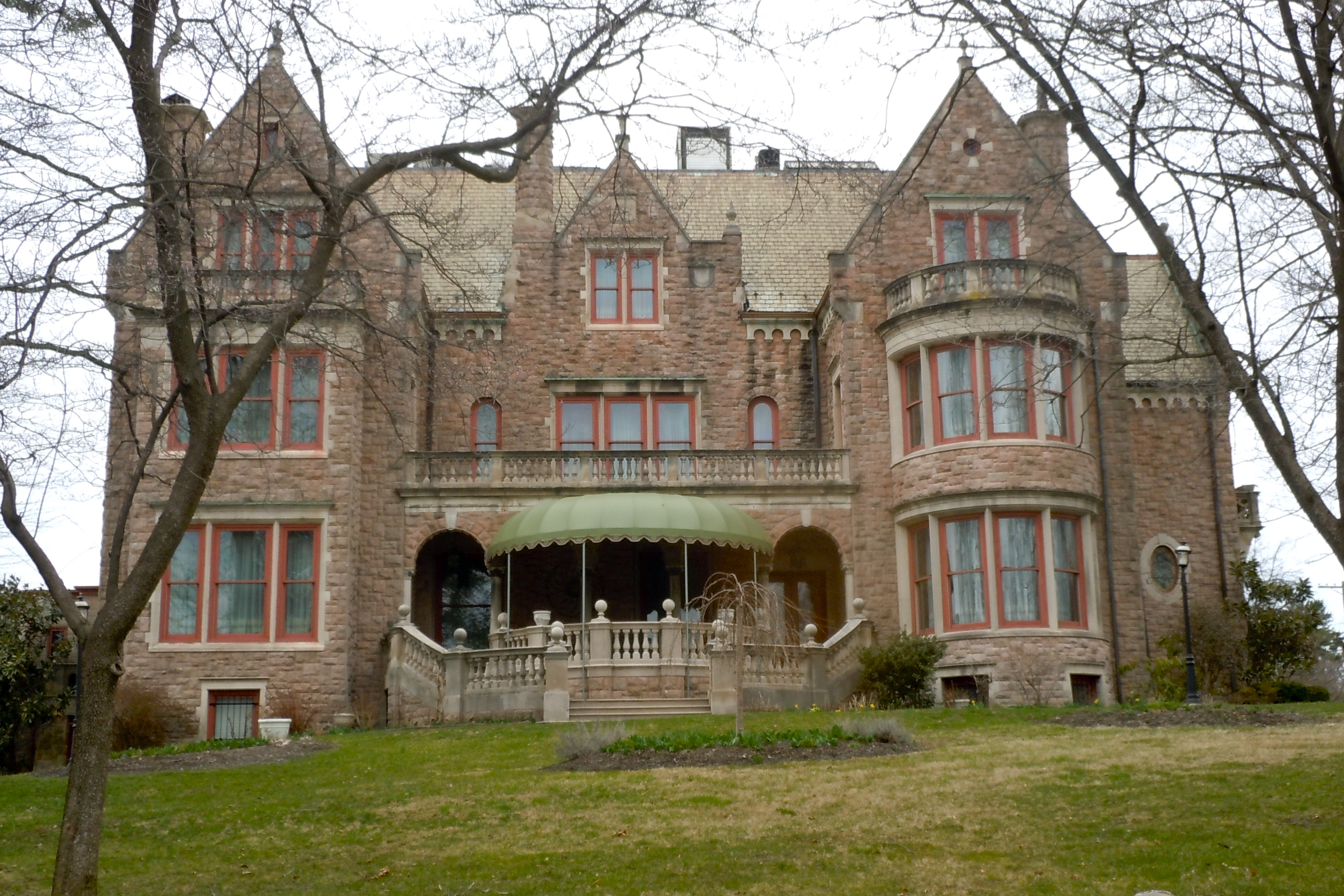 Stirling (hotel and restaurant) on the NRHP since April 17, 1980. At 1120 Centre Avenue, Reading, Pennsylvania